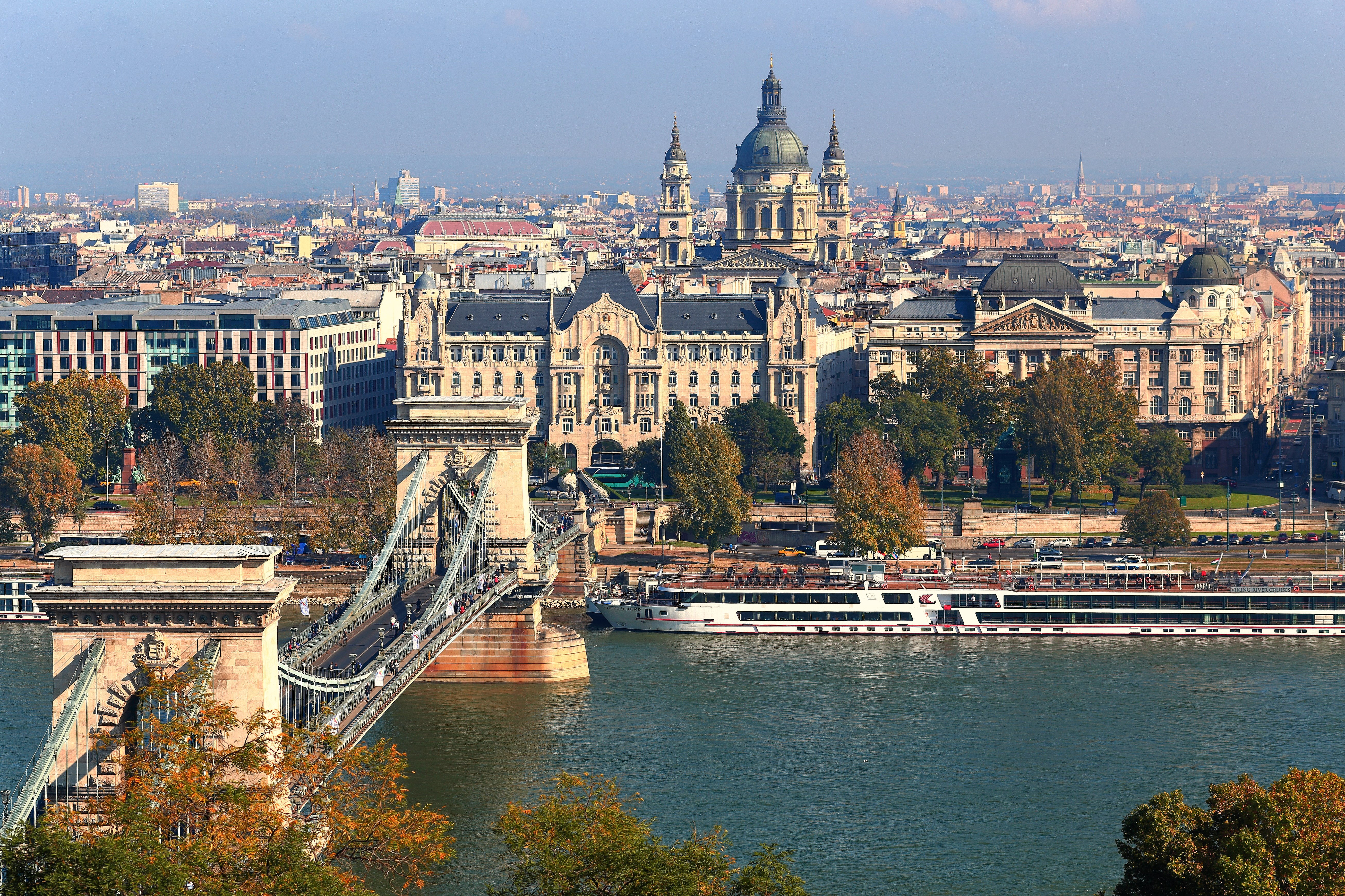 Budapest, Hungary (explored)